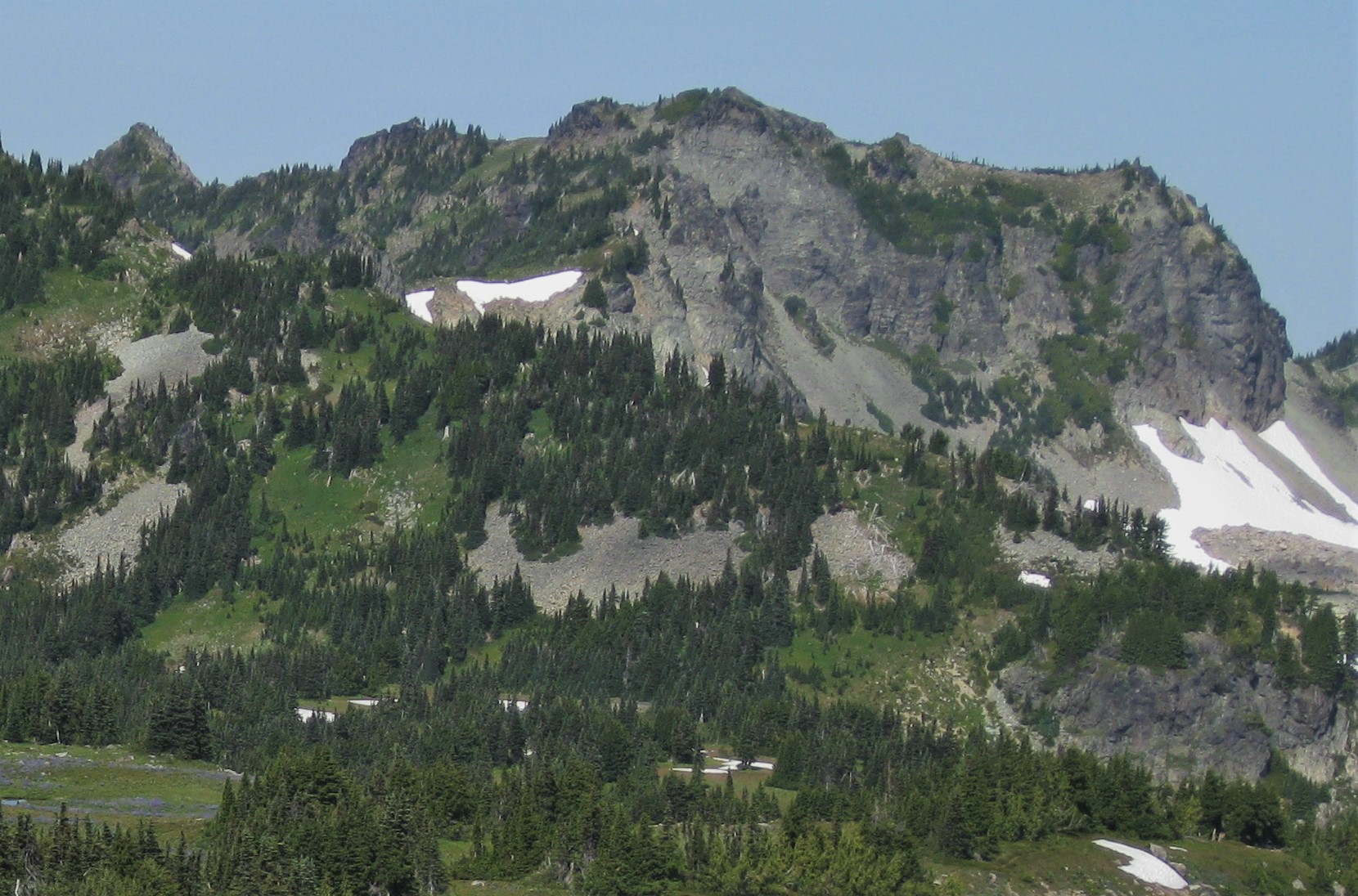 Fay Peak / East Fay Peak seen from Spray Park, Mount Rainier National Park.